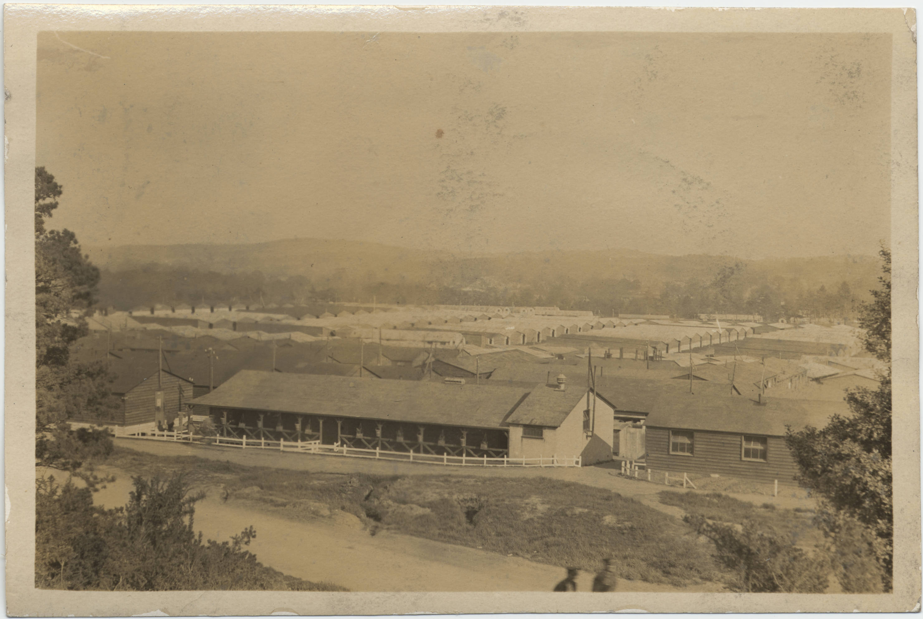 Item is a photograph from an album of World War One-related photographs in the William Okell Holden Dodds fonds. Brigadier General Dodds joined the Canadian Expeditionary Force in 1914 and was commanding officer of the 5th Canadian Division Artillery and served in France from 1917-1918.